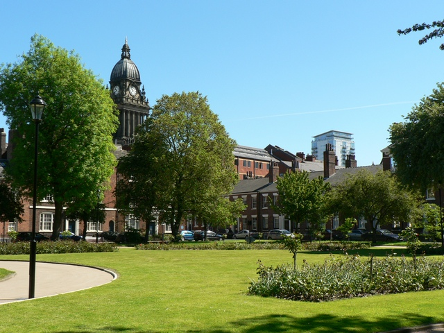 Park Square and Leeds Town Hall. This is one of the classic views of Leeds. Park Square was laid out in the late 18th century, and retains most of its original buildings. The Town Hall was opened in 1858 by Queen Victoria.